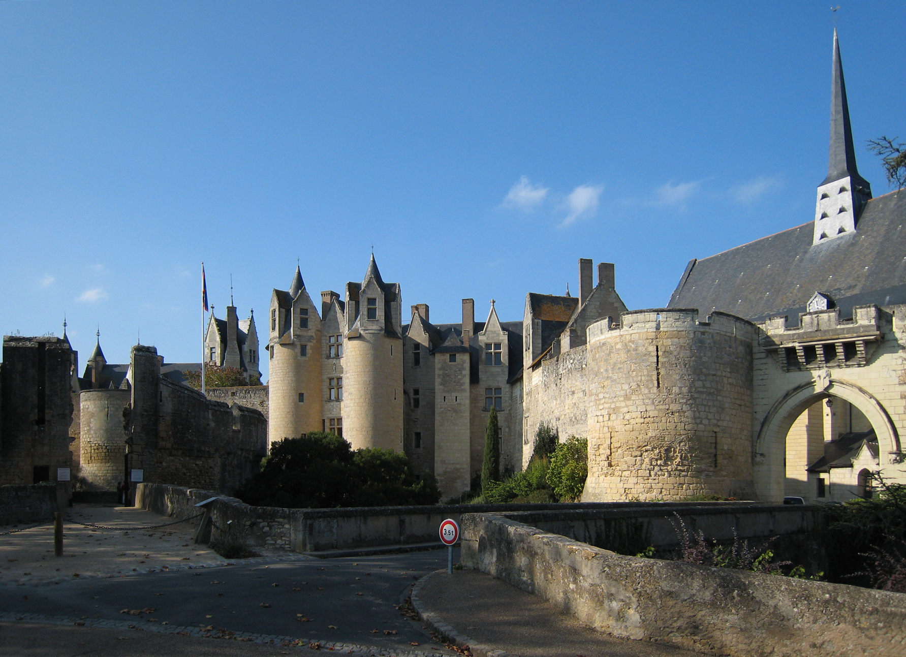 Castle Montreuil-Bellay, located in the village of Montreuil-Bellay in the county of Maine-et-Loire/France